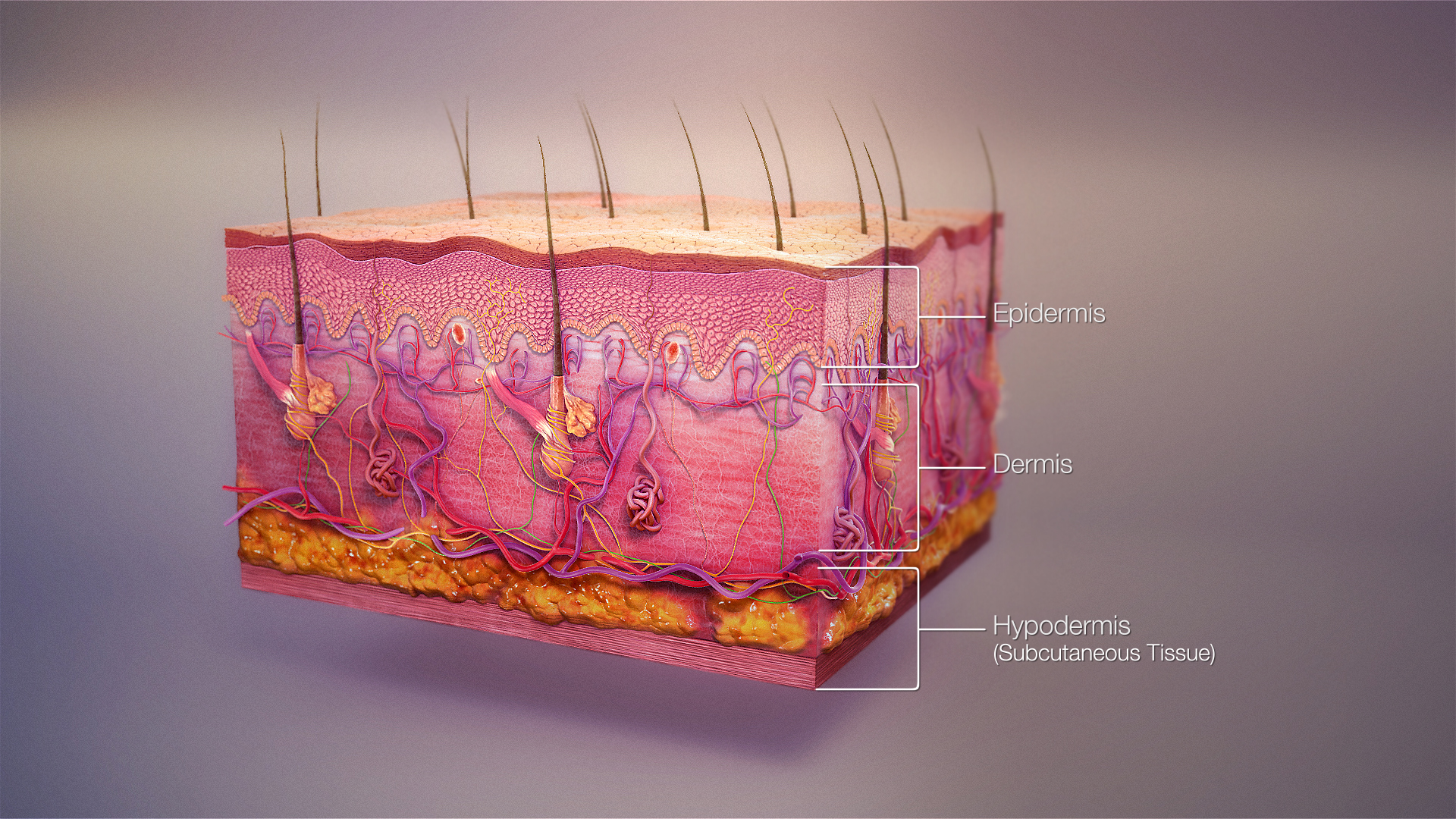 3D Medical Animation Still Image Depicting Different Layers of Skin